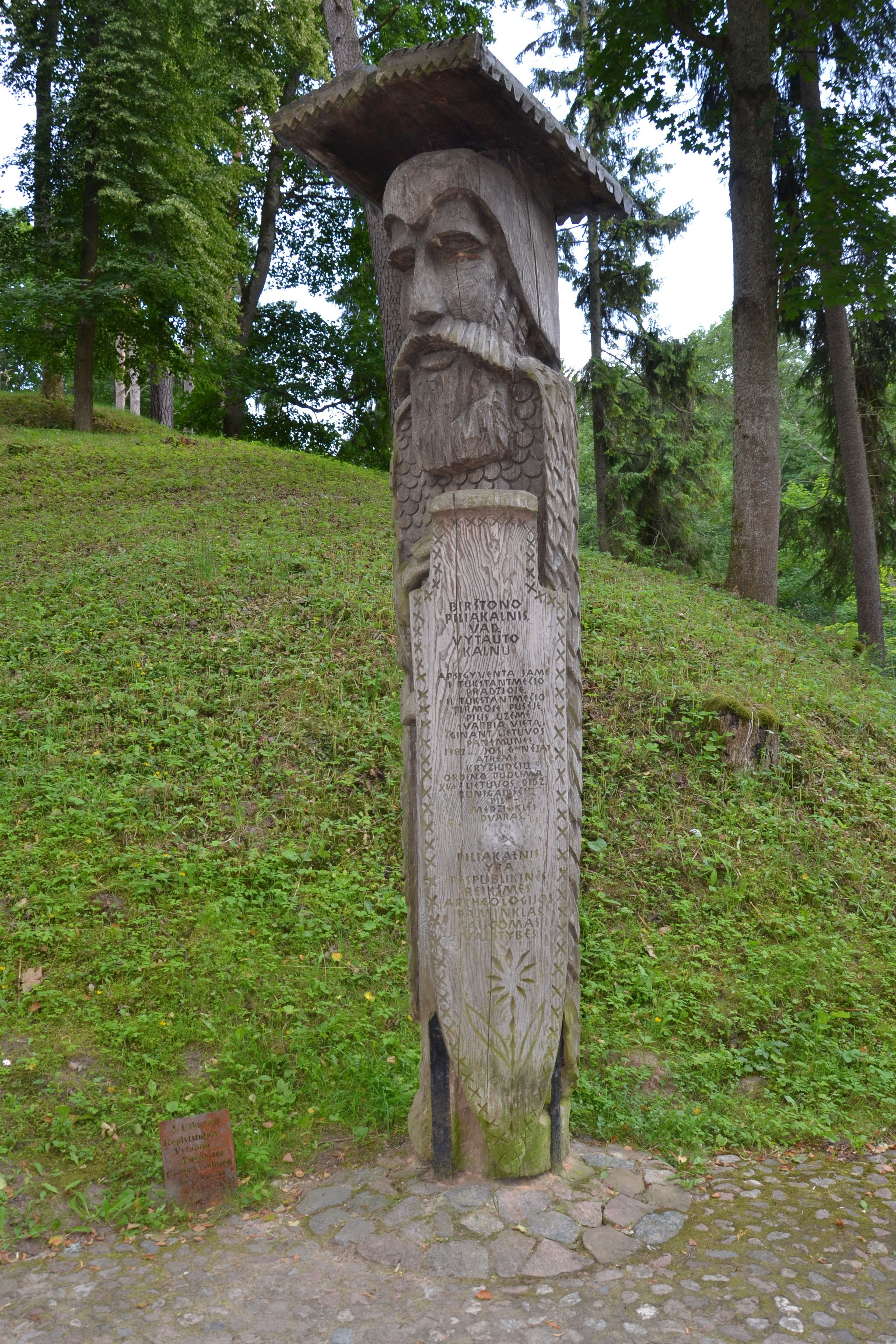 Chapel colum to Grand Duke of Lithuania Vytautas the Great, Birstonas, Lithuania